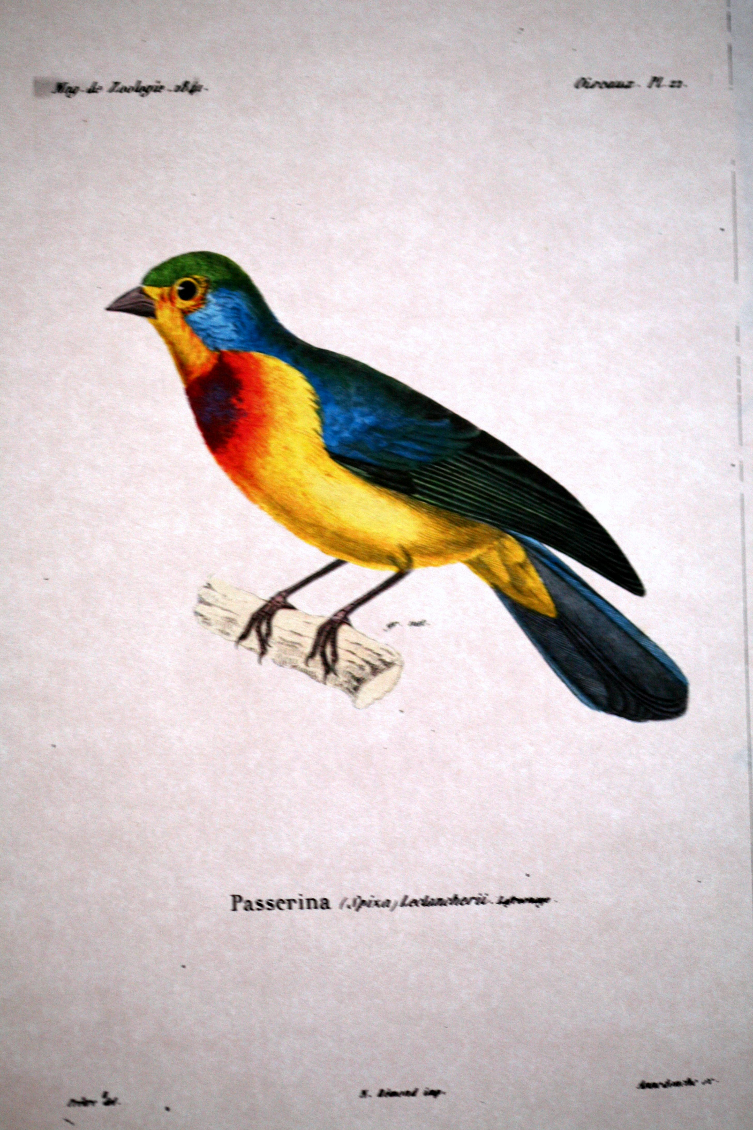 An illustration of Passerina (Spiza) leclancherii